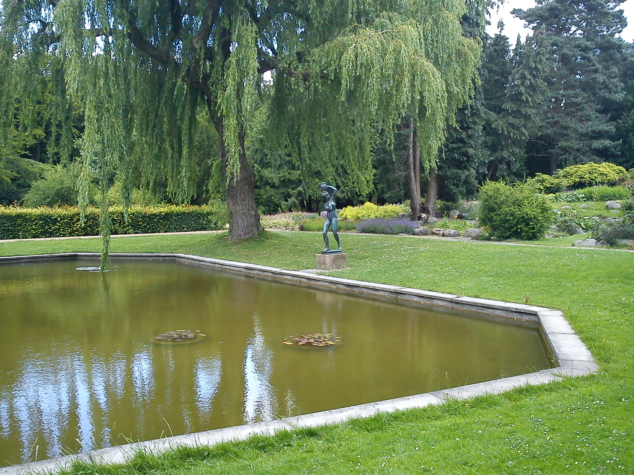 Mindeparken